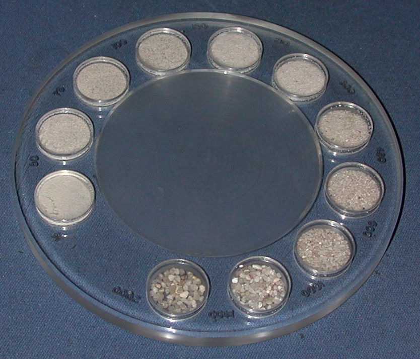 'Zandlineaal' - obique view of plastic disc with cells in which sand of different grain size is kept. Meant to be used for estimating grain size of sand. Grain sizes: 16, 50, 75, 105, 150, 210, 300, 420, 600, 1000, 1400, 2000 micrometer